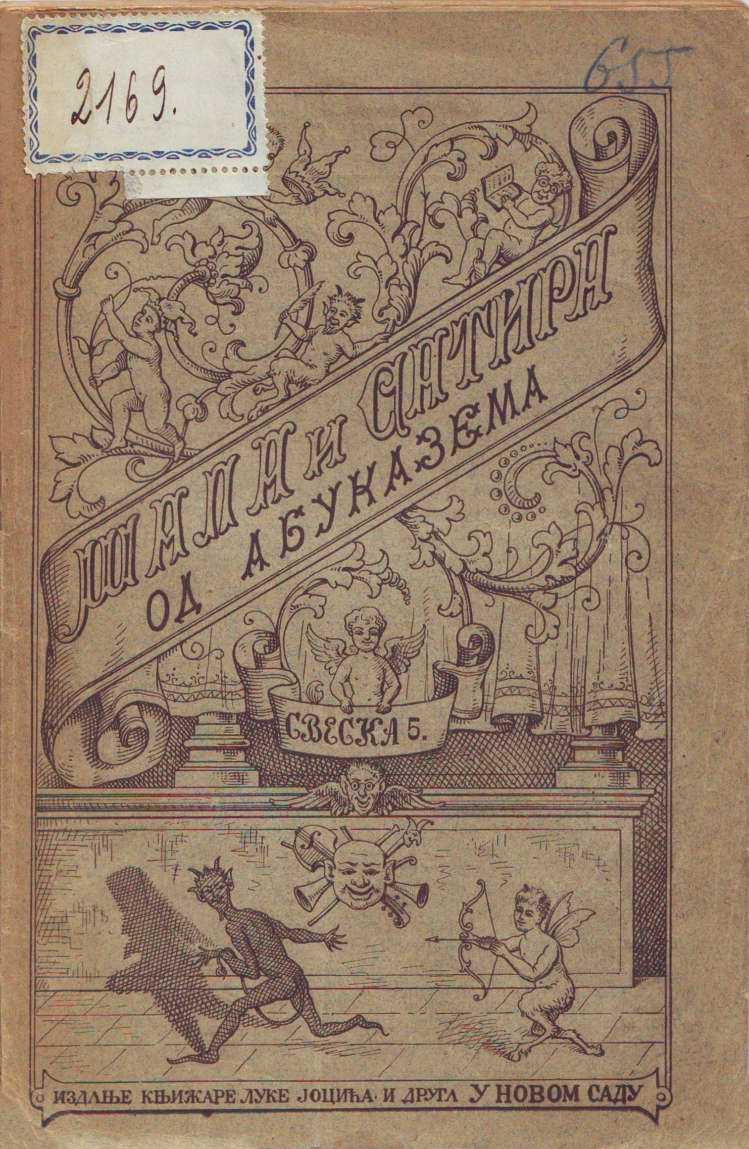 Cover of volume 5 of Šala i satira by Ilija Ognjanović Abukazem. Srpski (latinica): Naslovna strana pete sveske Šale i satire Ilije Ognjanovića Abukazema.